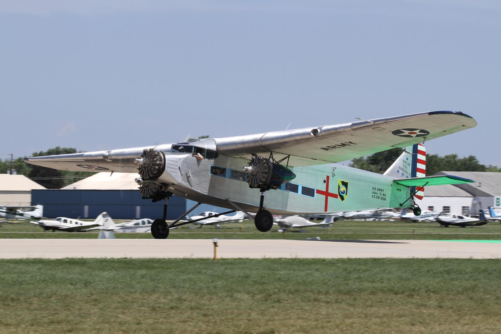 N8419 / 29-058 (cn 5-AT-58) Manufactured in 1929, now flown by the Air Zoo Museum (Kalamazoo Aviation History Museum)